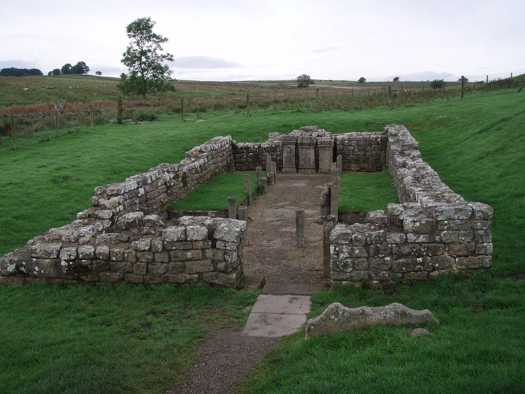 Roman mithraeum at the Hadrian's Wall fortress of Brocolitia in Carraburgh.